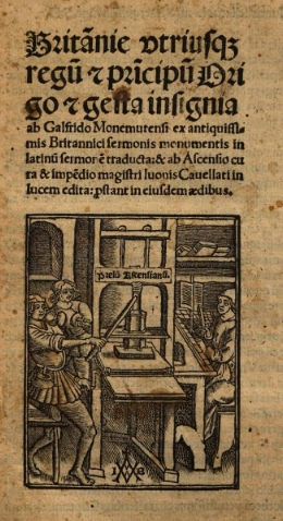 Geoffrey_of_Monmouth, Britannie utriusque principum et regum origo title page